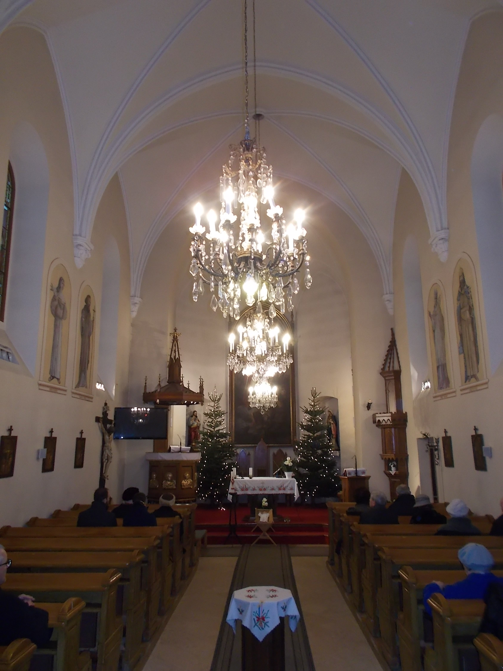 Saint Ladislaus Church nave. - 15/A Diana utca, Istenhegy, 12th district of Budapest.